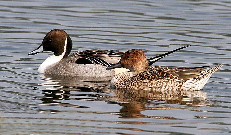 Northern Pintail (Anas acuta) in Kolkata, West Bengal, India.